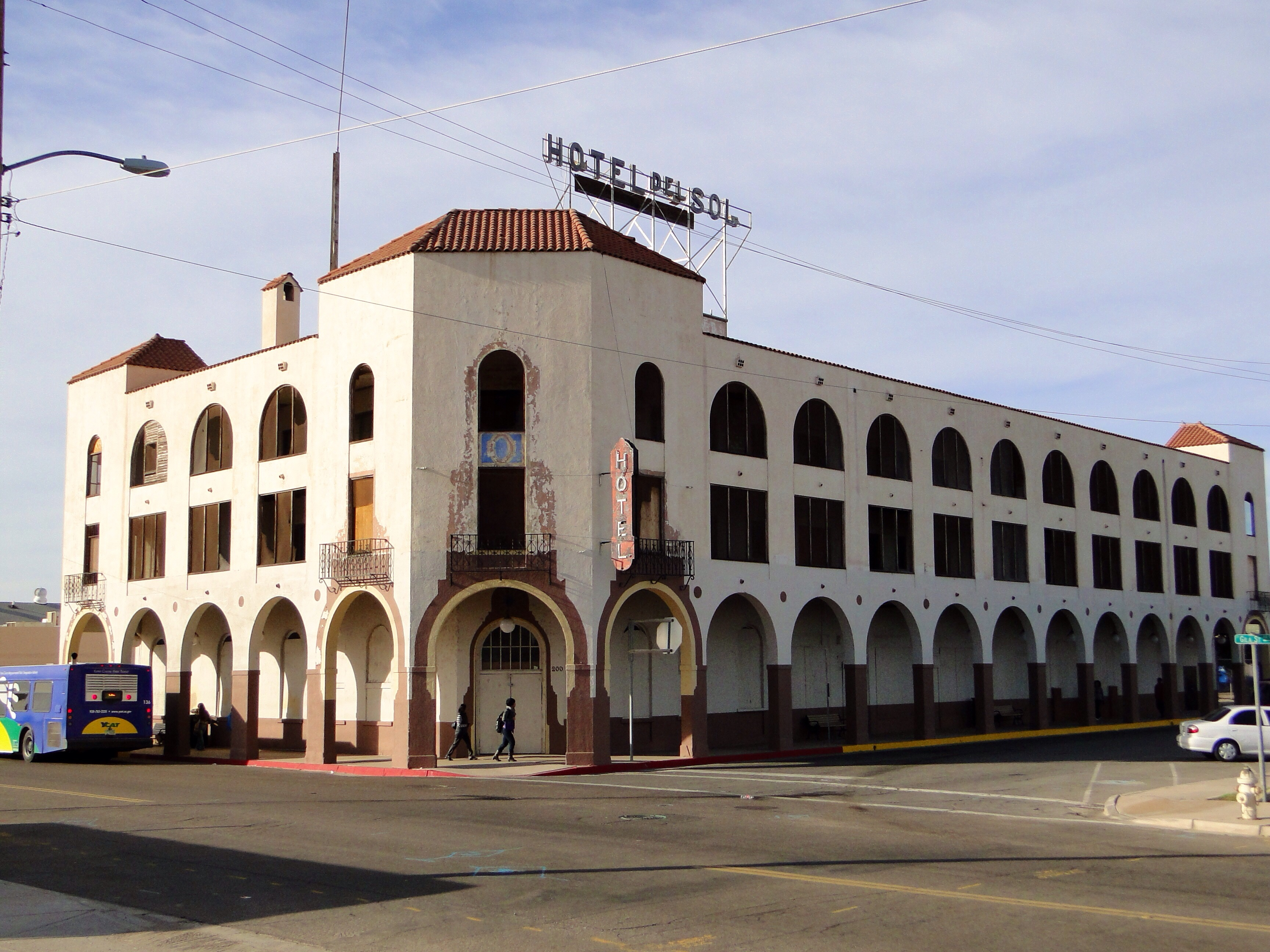 Hotel del Ming, aka Hotel del Sol, 200 Gila Street, Yuma, Arizona